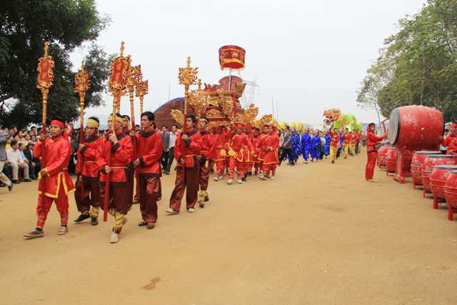 Le hoi den tho Le Lai